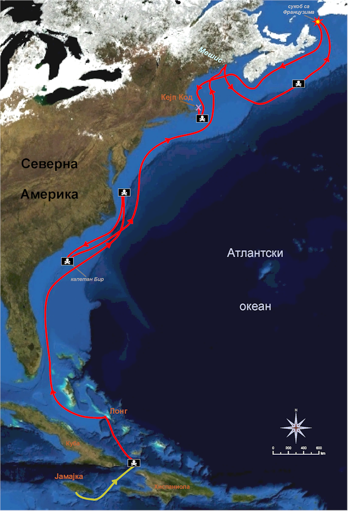 Map showing the route of Whydah Gally after she was taken by pirates. — - route of Whydah before she was taken by pirates — - route of Whydah after she was taken by pirates X - place where Whydah sank - places of known piracies